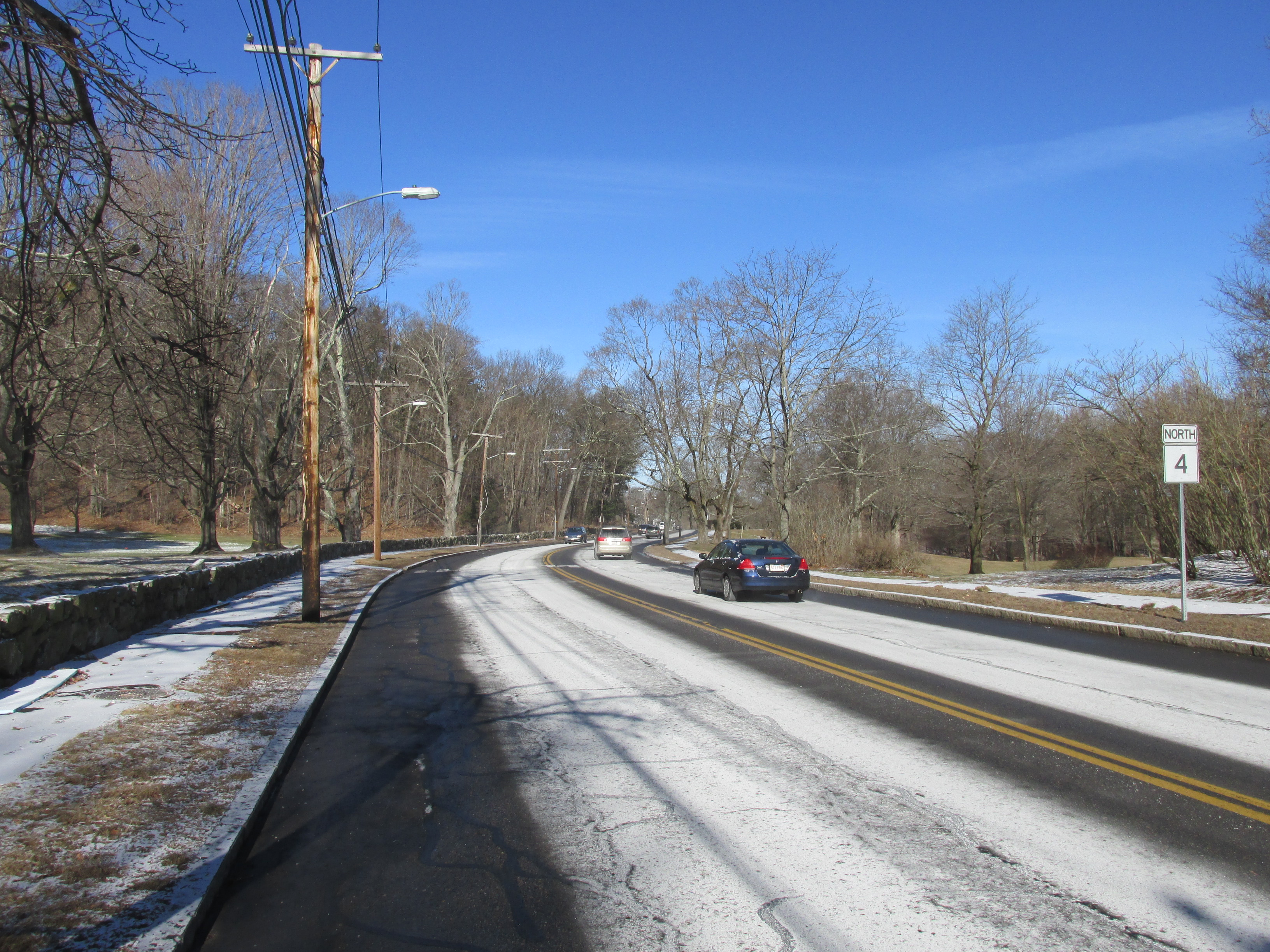 Massachusetts Route 4 northbound, Lexington Massachusetts